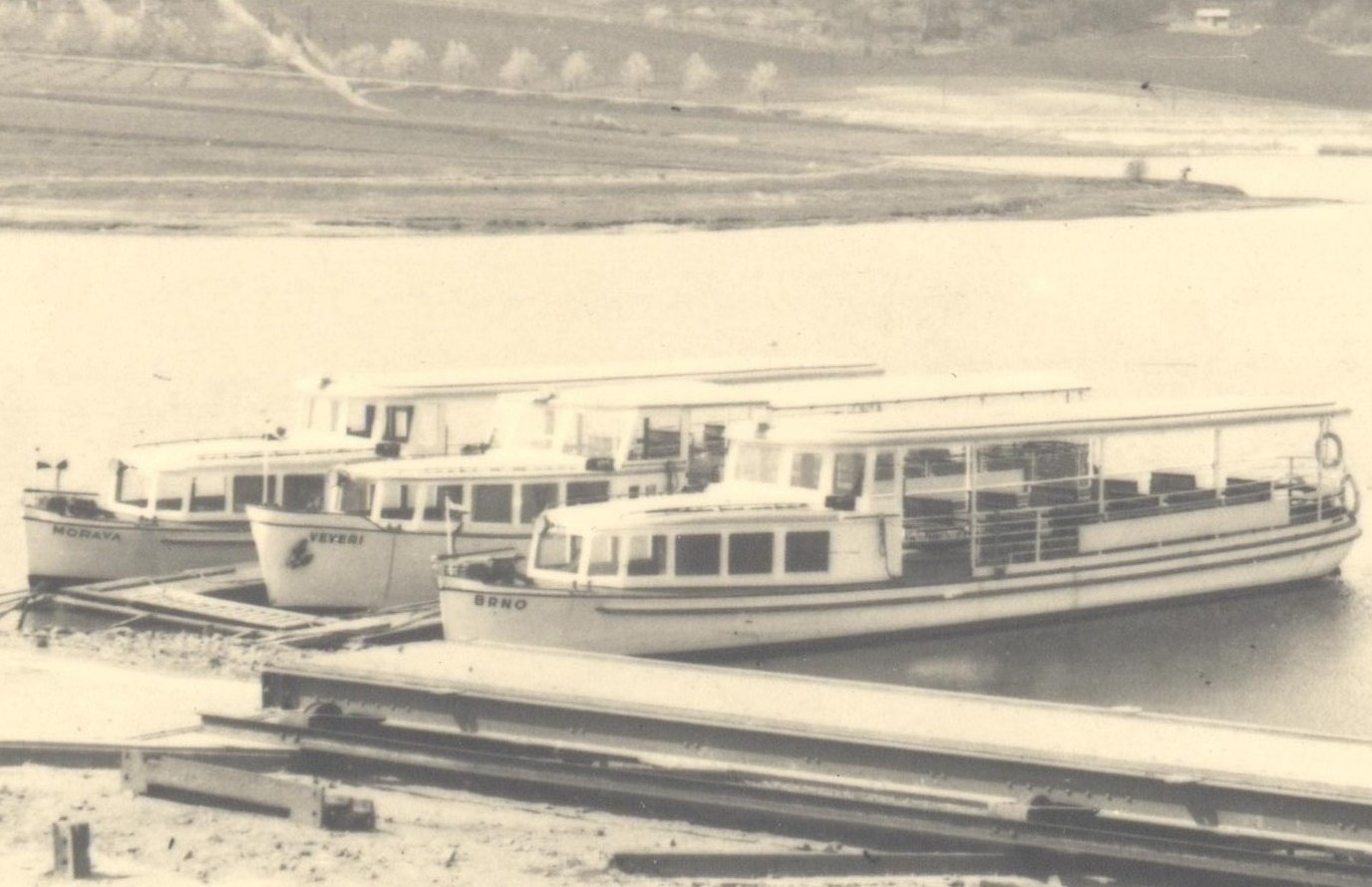 Ships (from left to right) Morava, Veveří and Brno, Brno Reservoir, Czech Republic